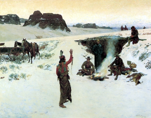 The Truce.